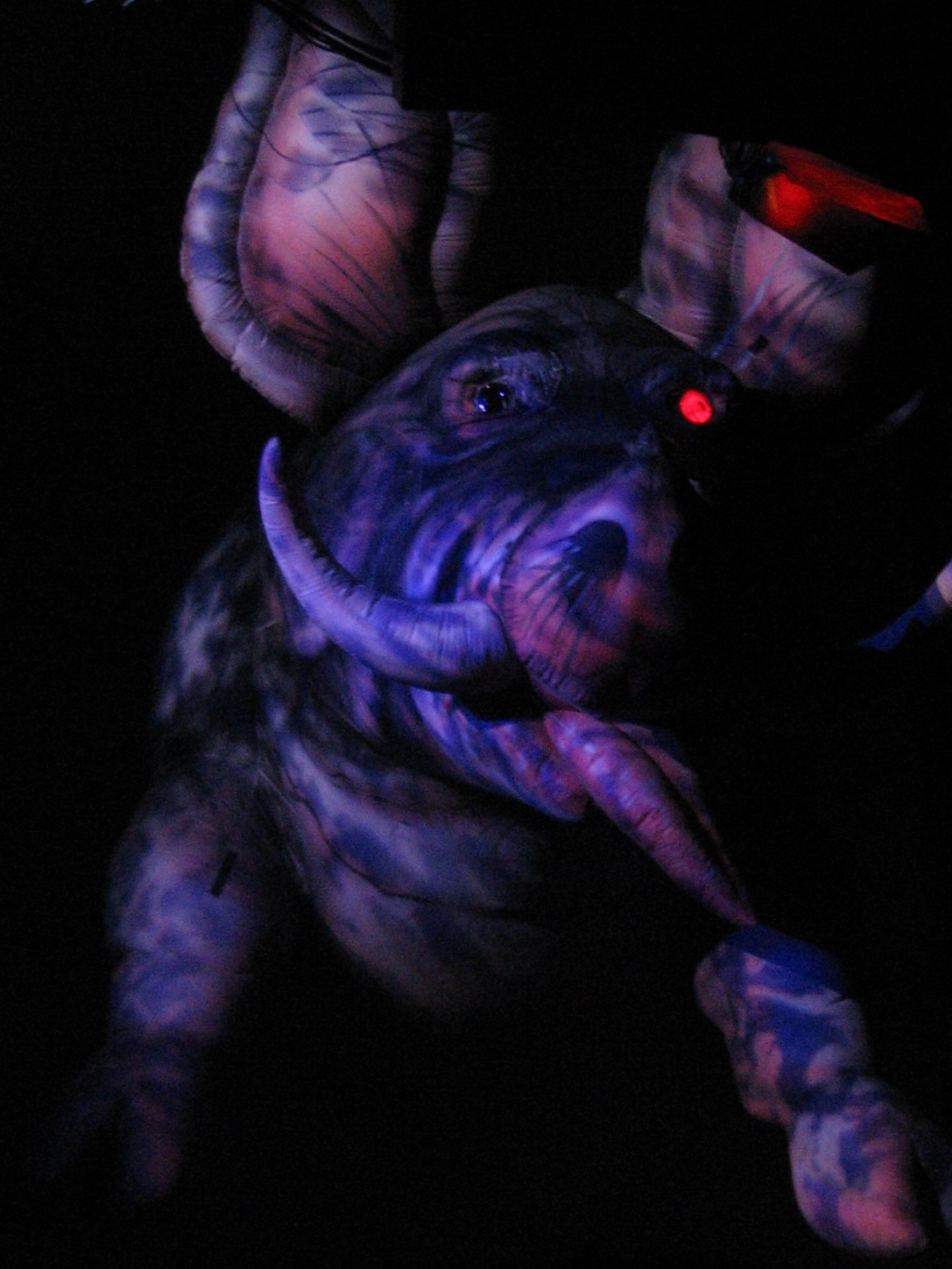 Floyd Pig- the embodyment of Pink Floyd's album, Animals, where the Pigs take over in a George Orwellian world